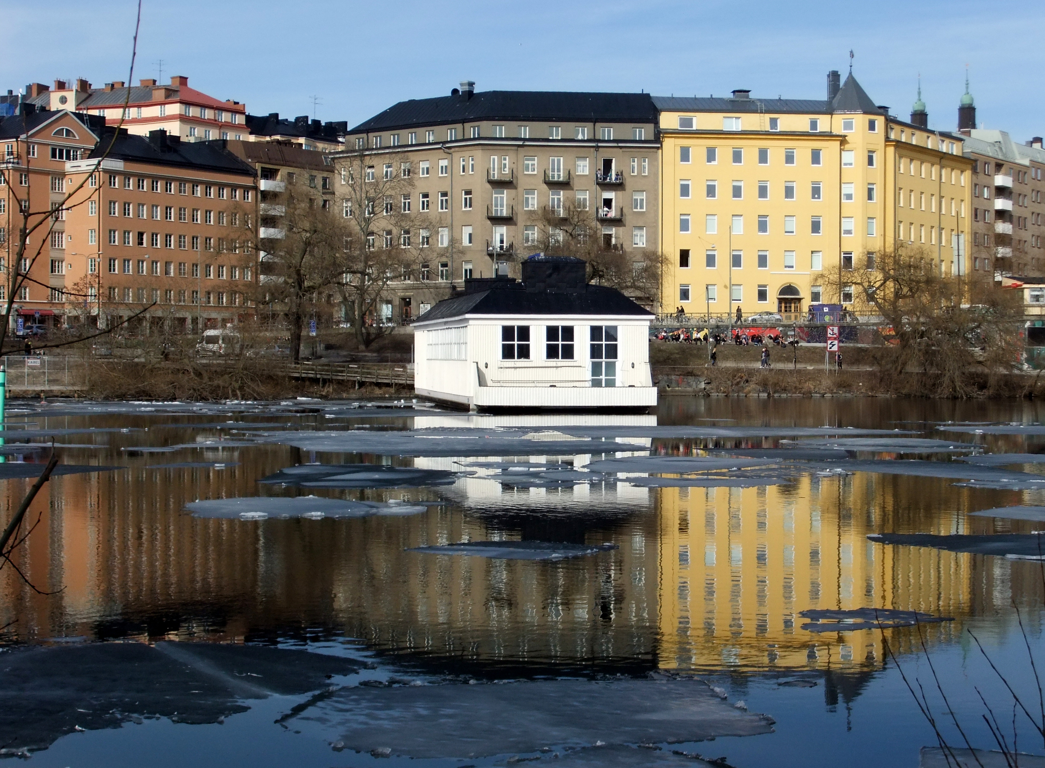 With hull of concrete